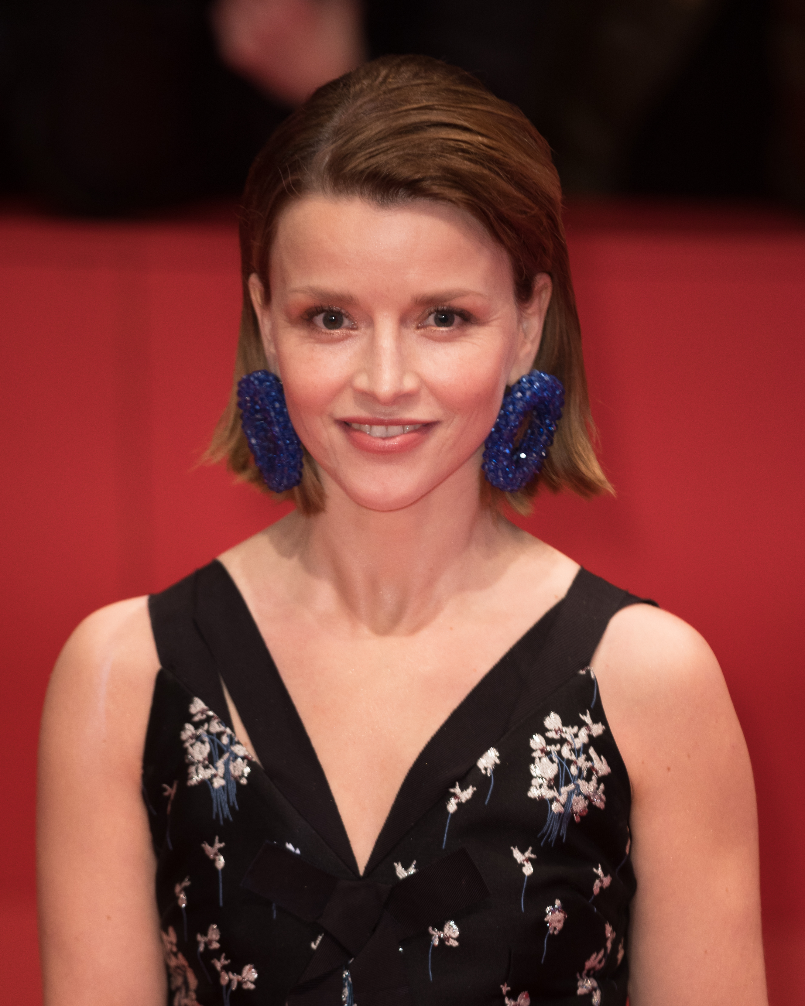 Karoline Schuch at the opening ceremenony of the Berlinale 2018